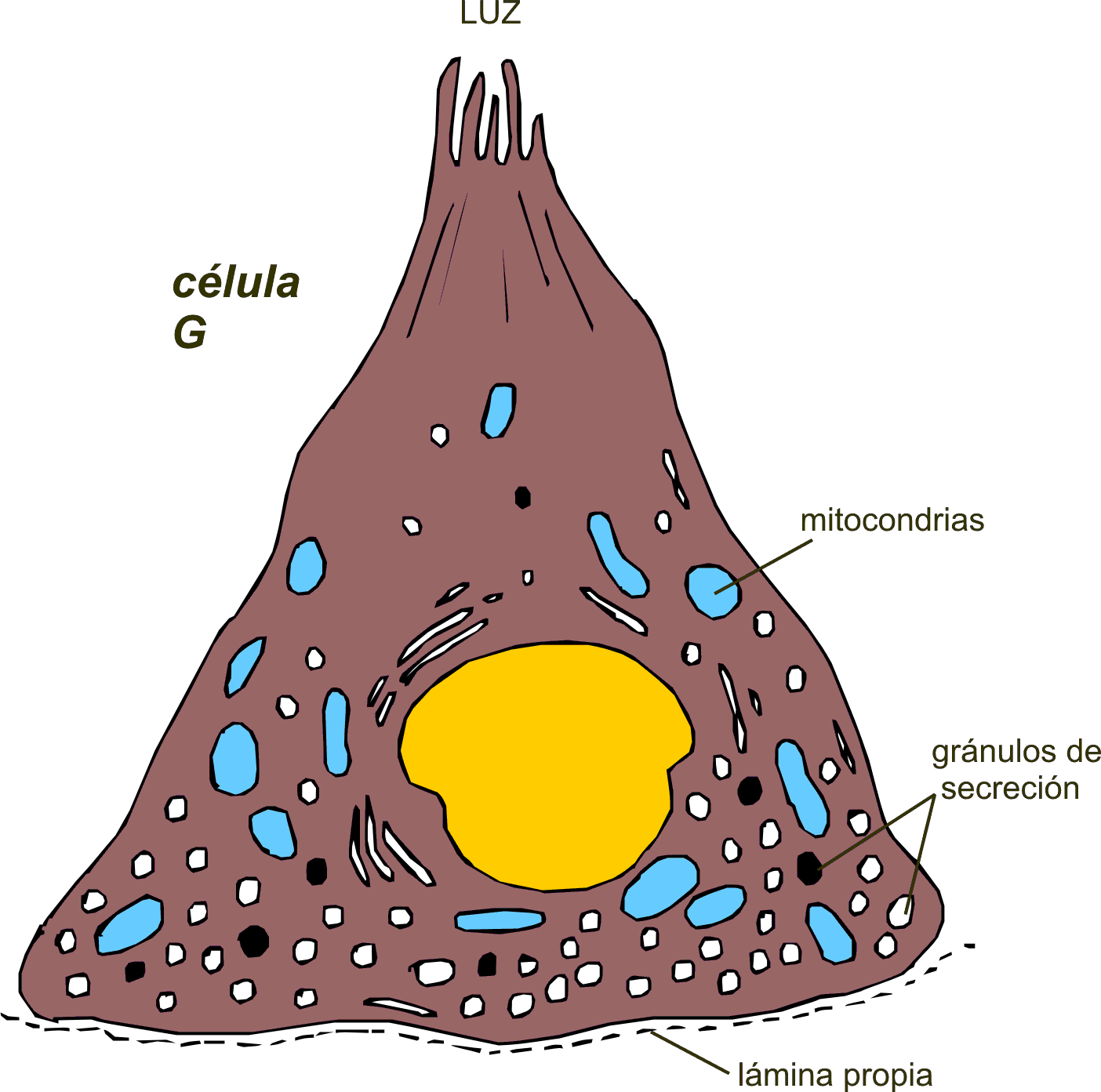 Diagram of a gastric G cell